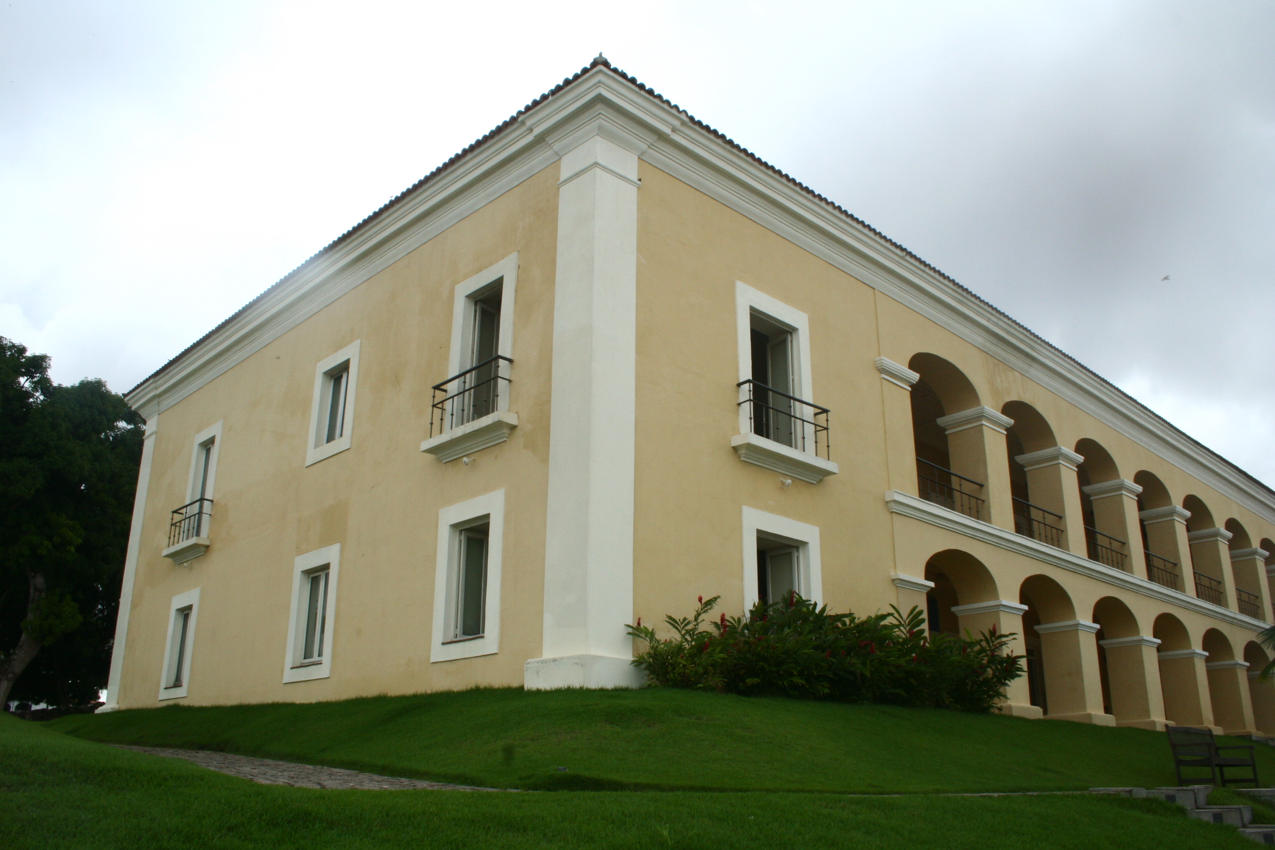 Casa das Onze Janelas ("House of the eleven windows", 18th century) in Belém, Brazil